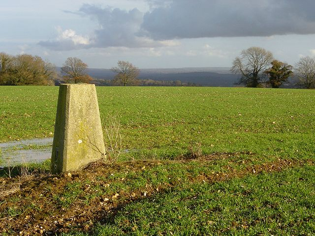 Trig point near Goleigh Farm, Priors Dean, Hampshire, looking east from the flattish top 220m or 725ft above sea level.